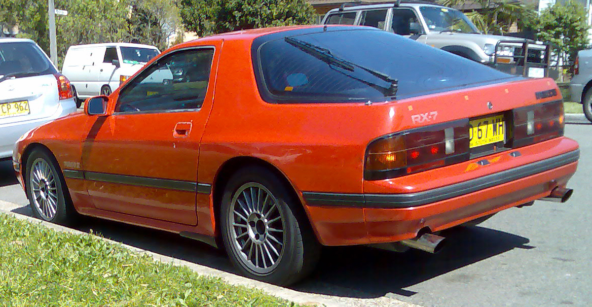 1988 Mazda RX-7 (FC) Turbo coupe. Photographed in Gymea, New South Wales, Australia.